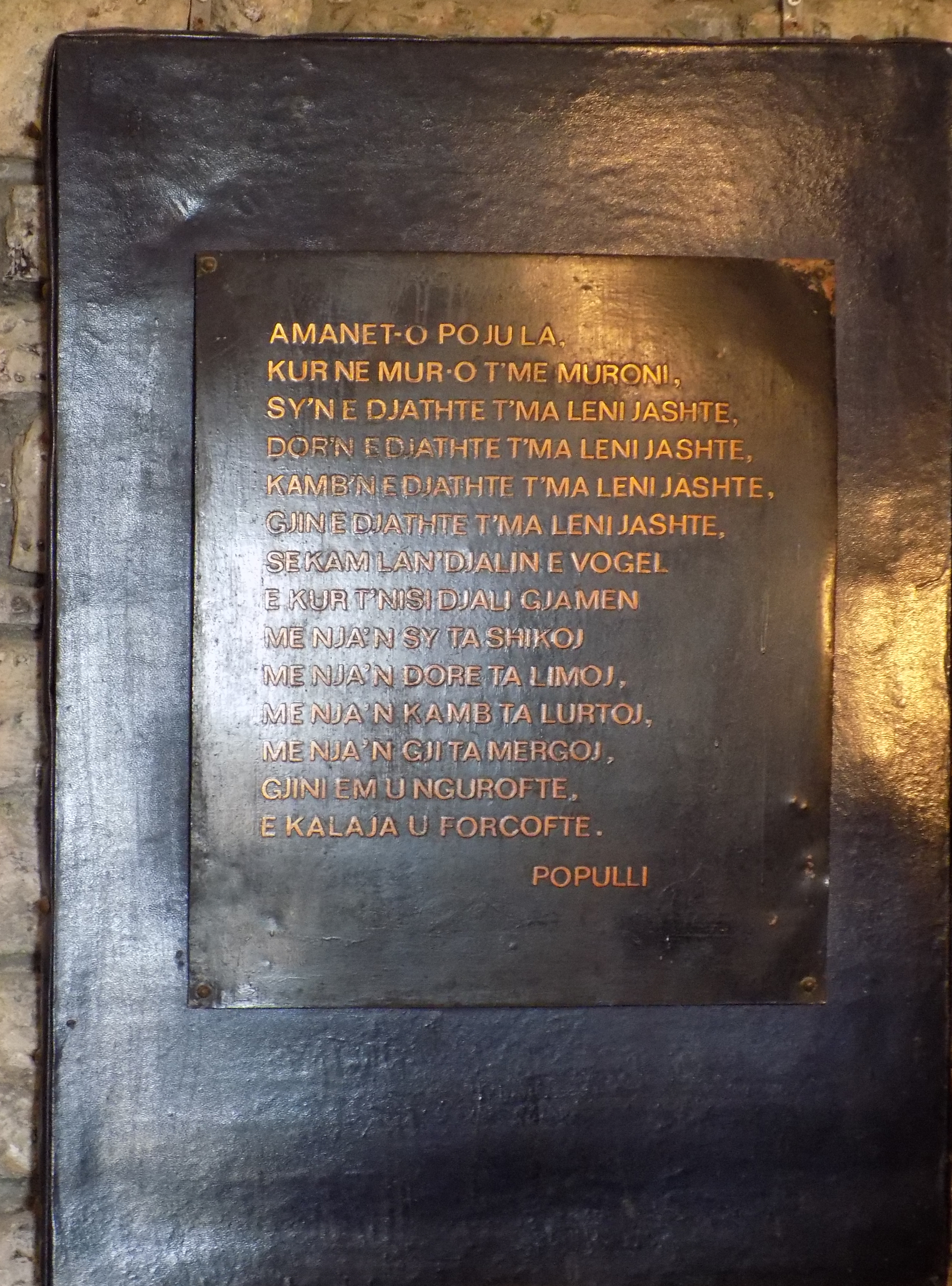 Rozafa Castle Legend in the Museum